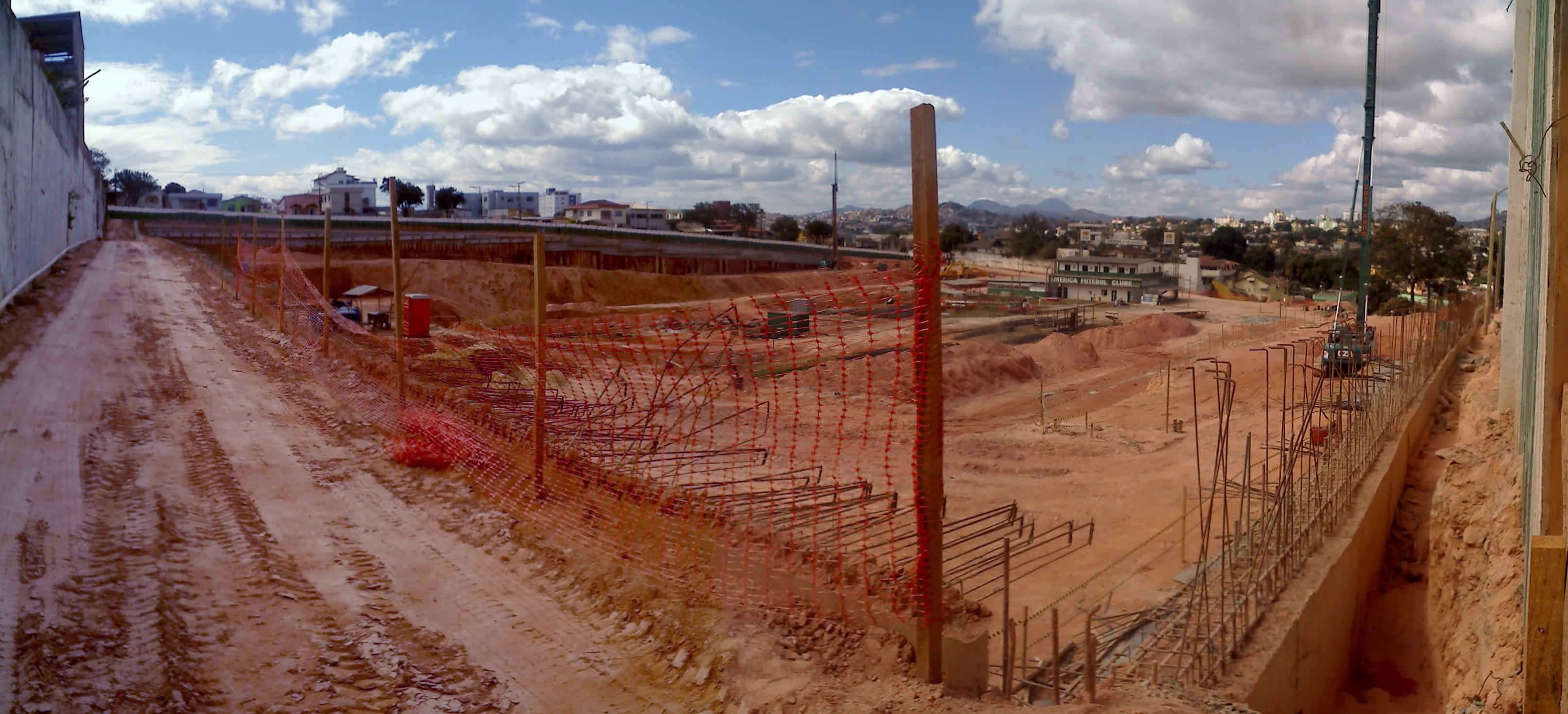 Independência Stadium in July 2010